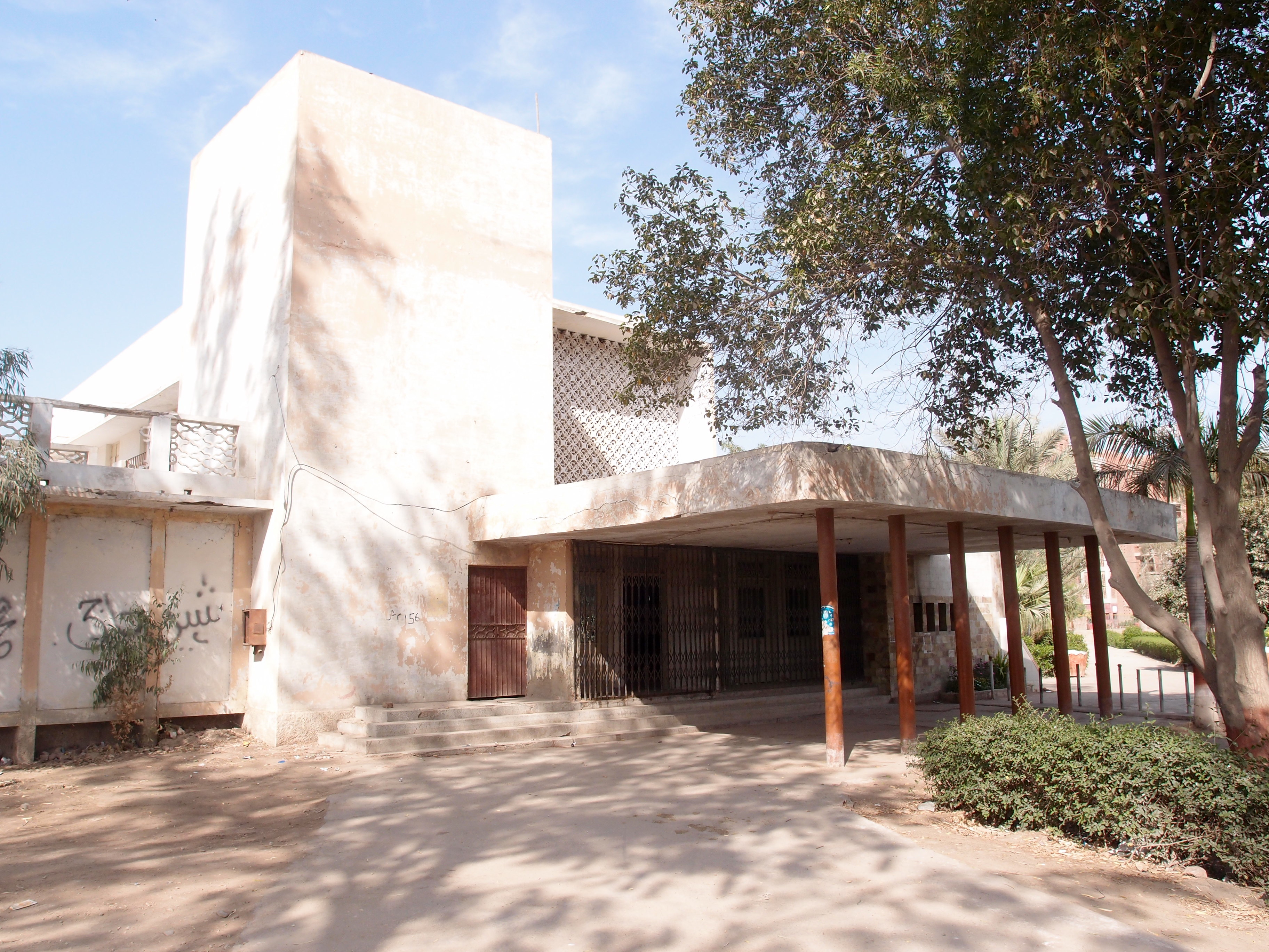 Mirpur Khas museum + library